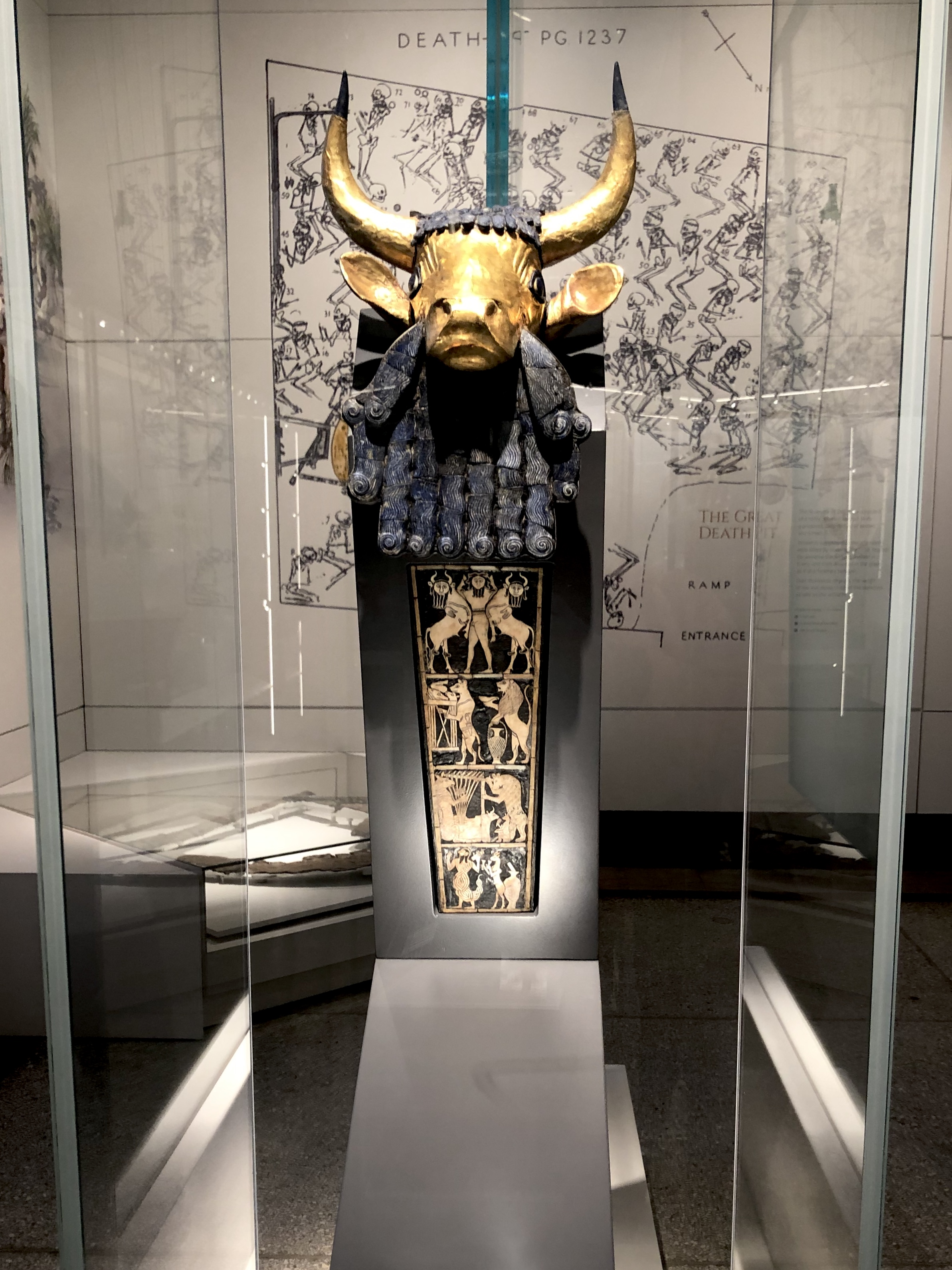 Bull Headed Lyre of Ur at the University of Pennsylvania Museum of Archaeology and Anthropology in the Middle East gallery.